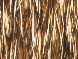 A lossless cut of the image File:Ticking makro.jpg.